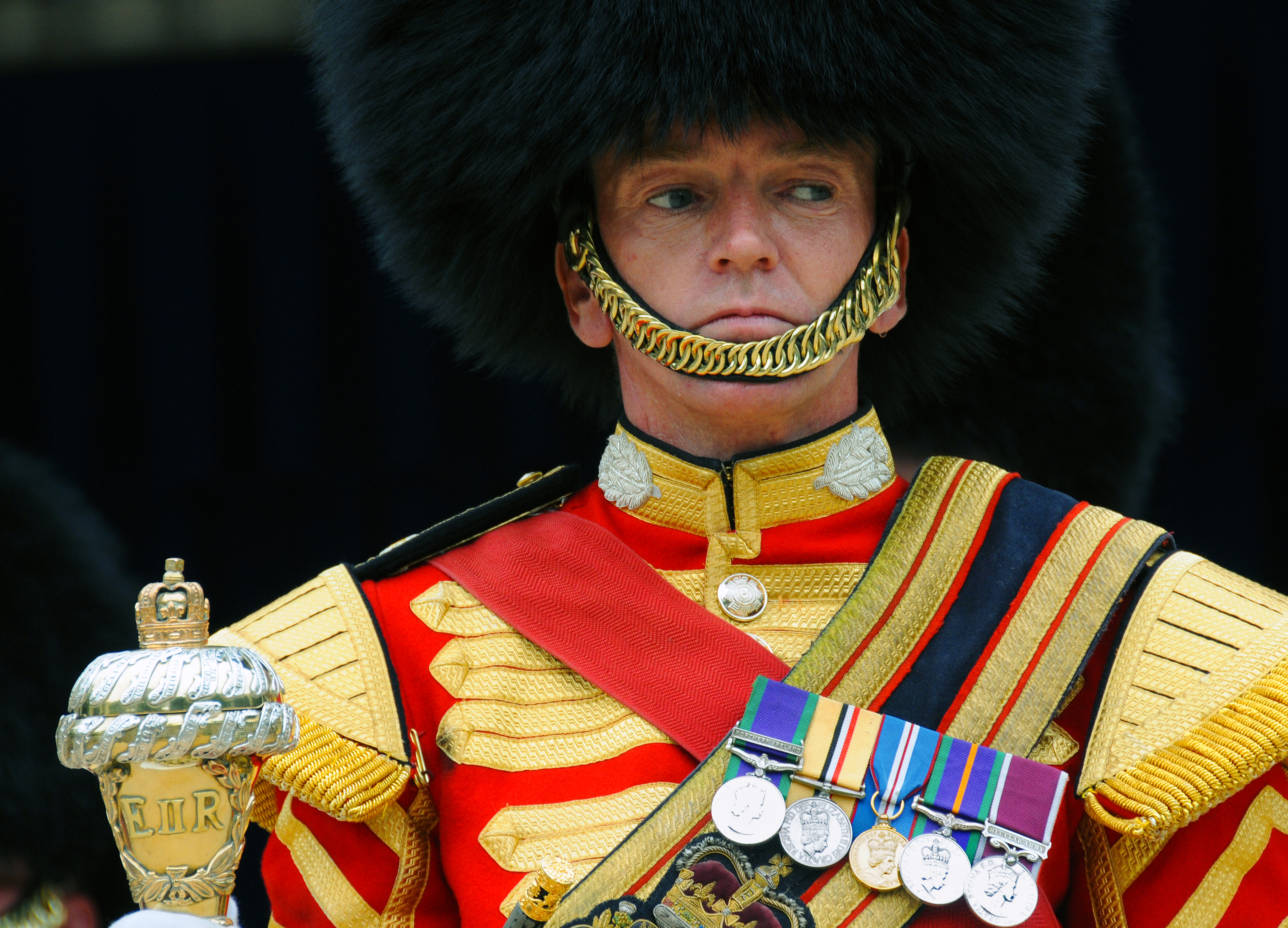 Drum major Sgt. Martin Godsman led the Pipes and Drums of the 1st Battalion Scots Guards as they put on a world class performance of bagpiping, drumming and highland sword dancing in the Pentagon courtyard Sept. 25